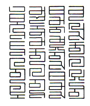 Recunstruction of the seal of Gyurme Namgyel. Tibetan Ruler (1747-1750)